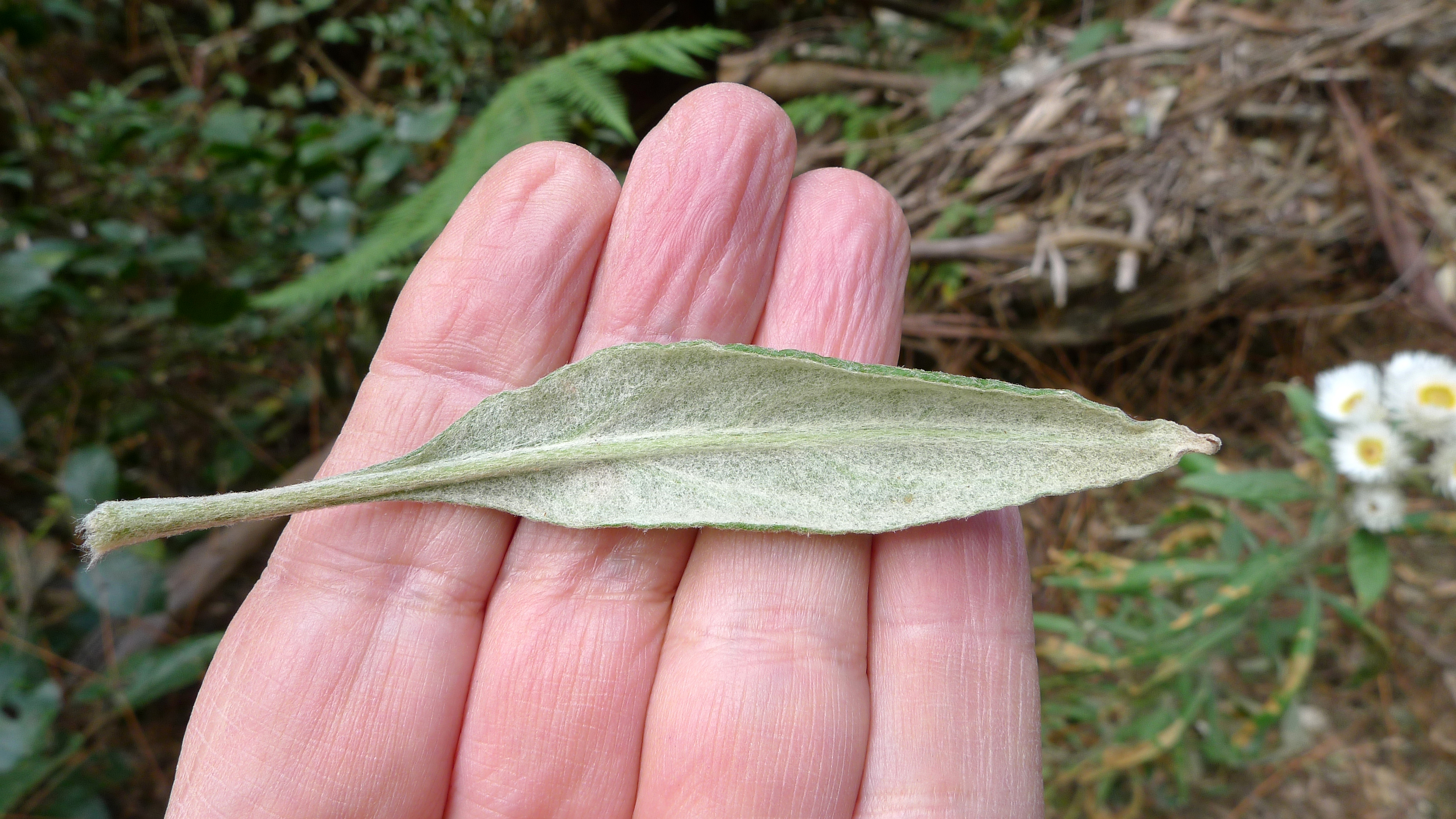 White Paper Daisy, Coronidium elatum, underside of leaf is very woolly, about 130 mm long. New England National Park, NSW, Australia, August 2014.